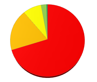 Expressed as a pie chart in the Tokyo gubernatorial election in 2003, the number of votes for each candidate. explanatory notes ■ - Shintaro Ishihara ■ - Keiko Higuchi ■ - Yoshiharu Wakabayashi ■ - Dr. NakaMats ■ - Kazutomo Ikeda